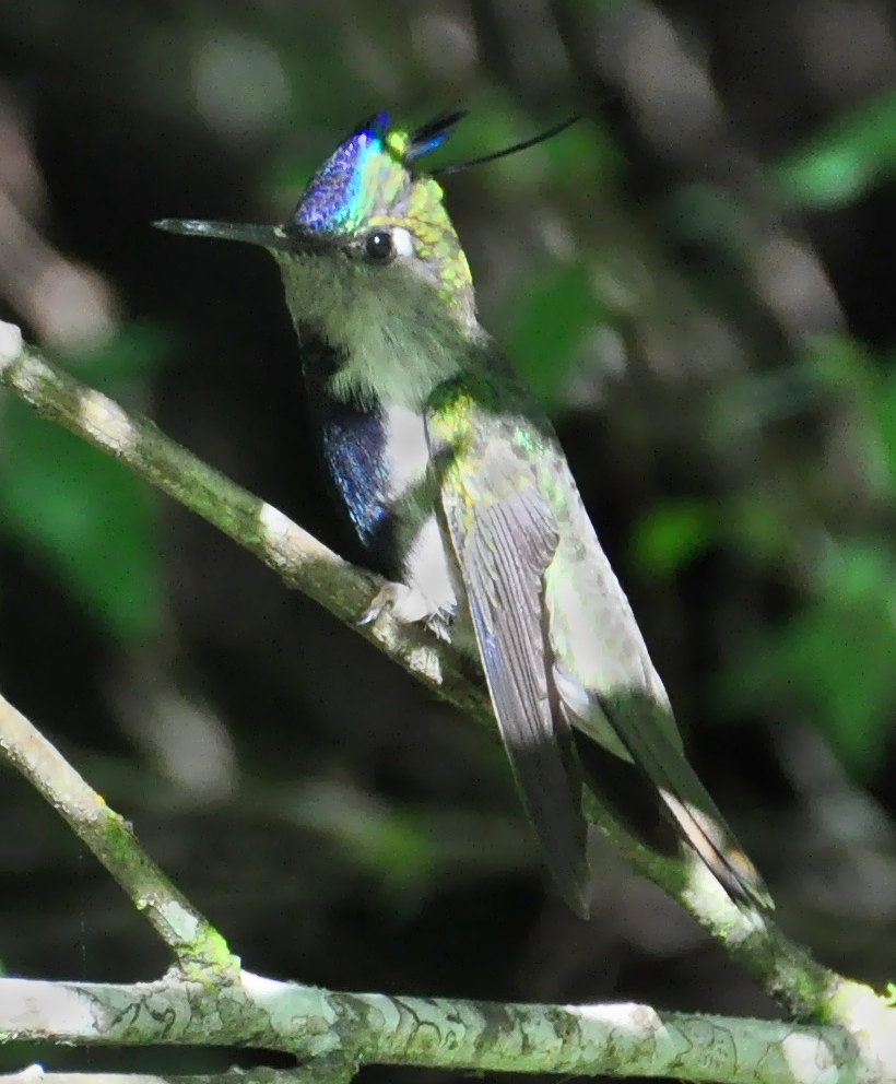 Stephanoxis lalandi subsp. loddiges male photographed in Rio Grande do Sul, Brazil, in October 2010.